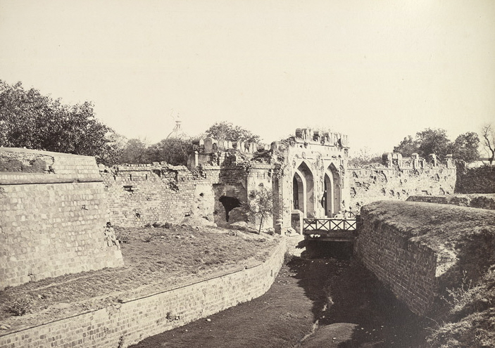 Photograph entitled, "Cashmere Gate, Delhi, Punjab" taken by Samuel Bourne in the 1860s and showing extensive damage to the Kashmiri Gate.